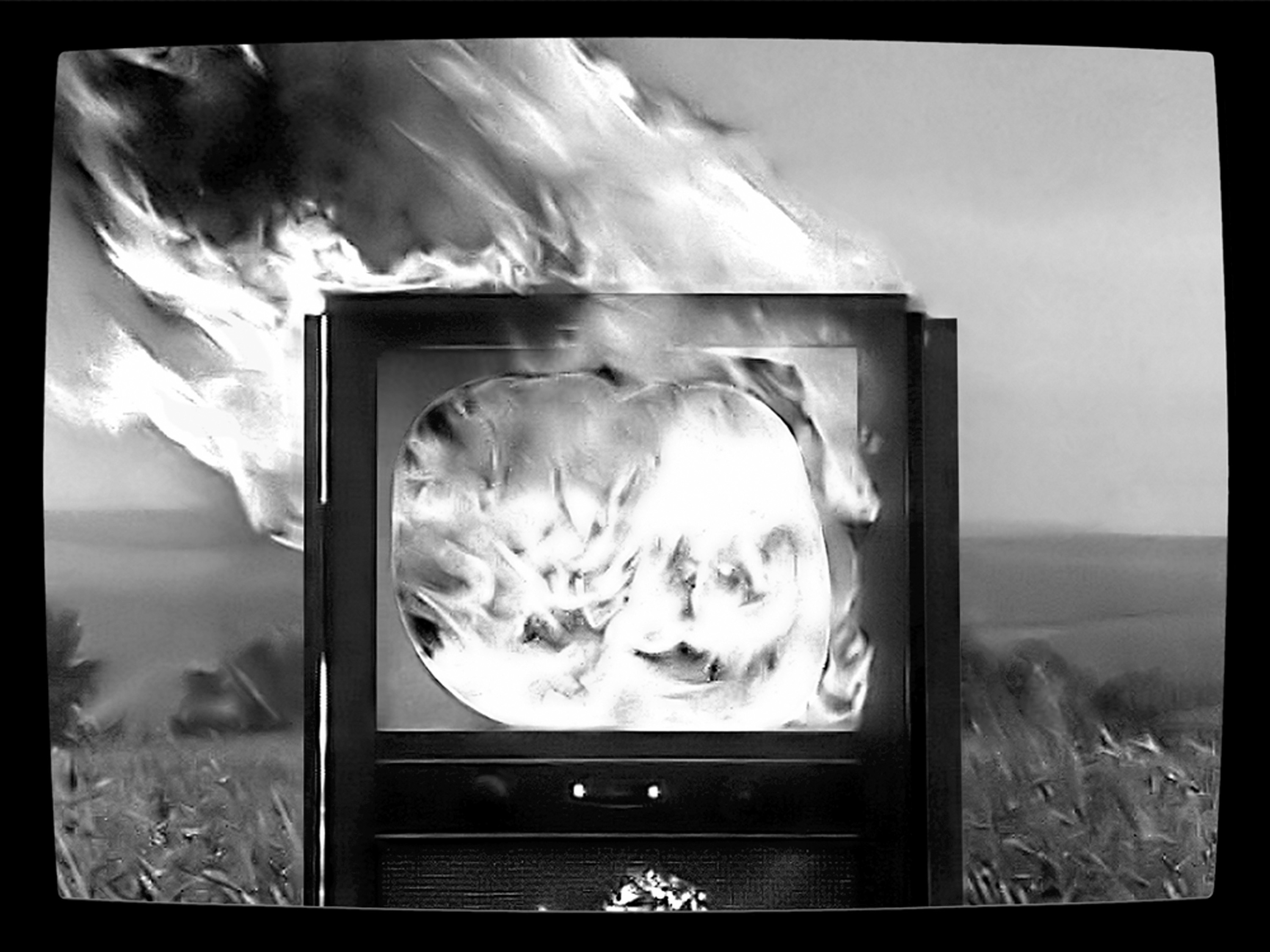 Broadcast television intervention work 1971